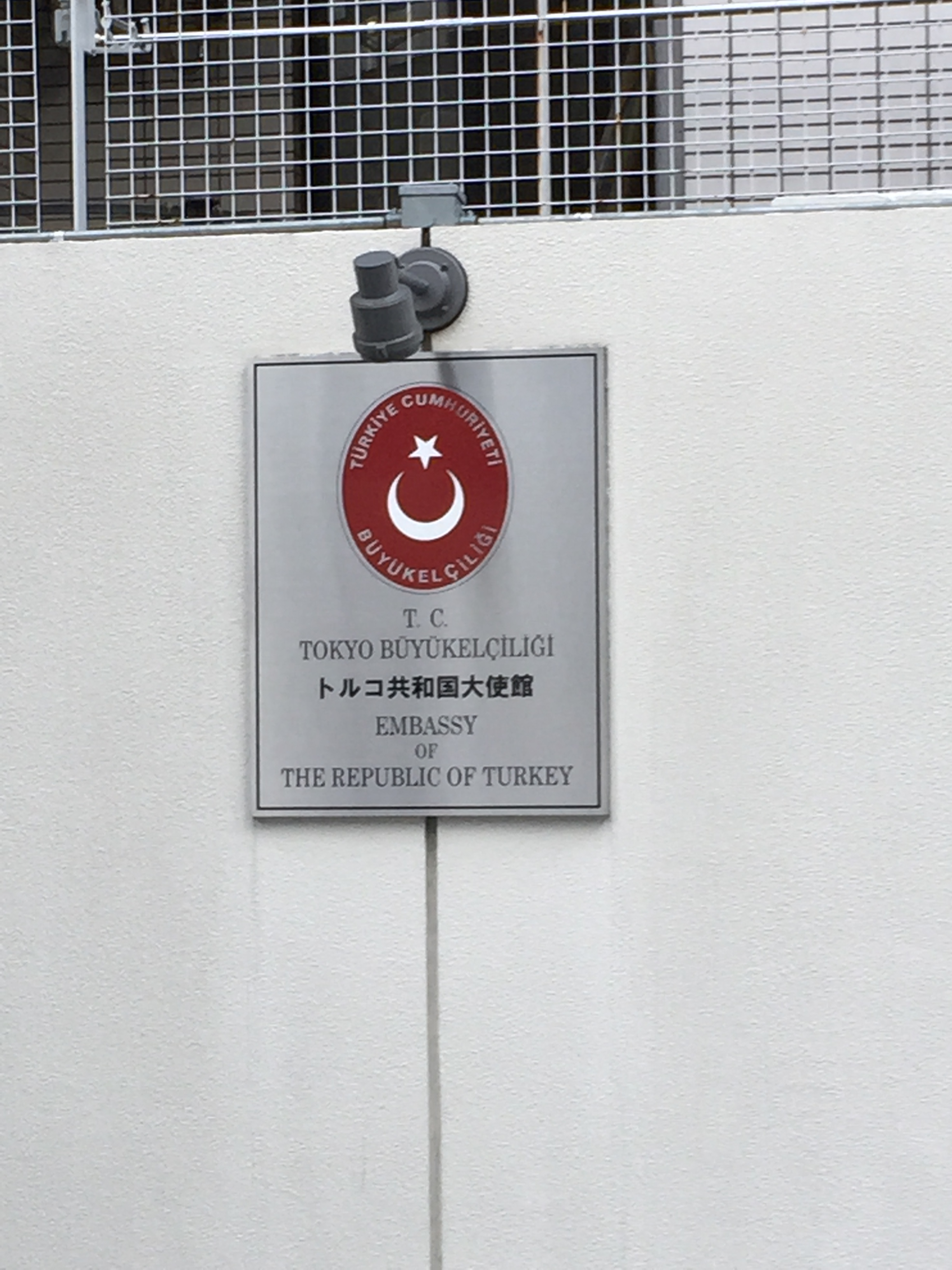 The plaque of the Turkish Embassy in Turkish, Japanese and English.